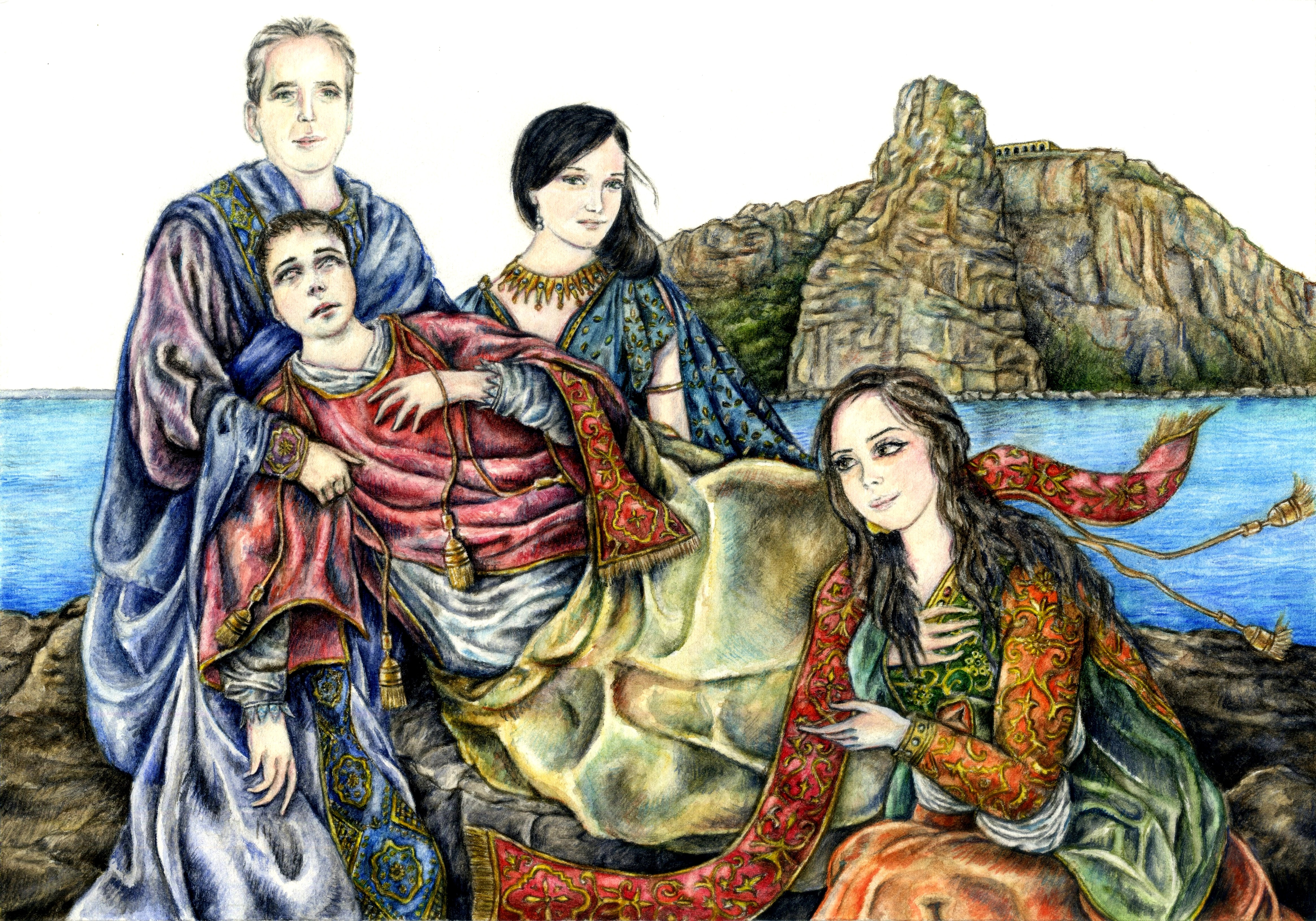 Il monaco Eusebio raccoglie le preziose reliquie di San Cesario e le seppellisce a Terracina, in Agro Varano, il giorno delle calende di novembre